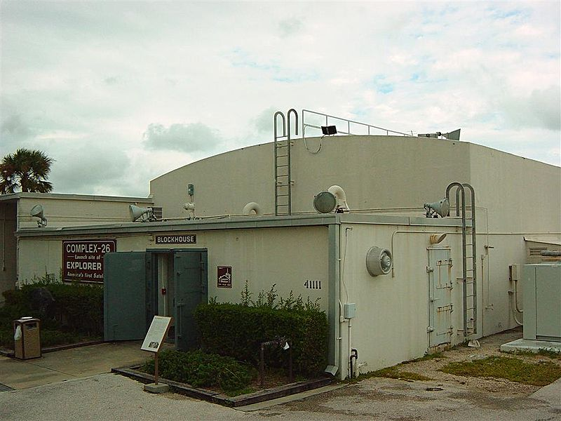 Blockhouse at Cape Canaveral Air Force Station Launch Complex 26. Home of the Air Force Space & Missile Museum. October 2004.